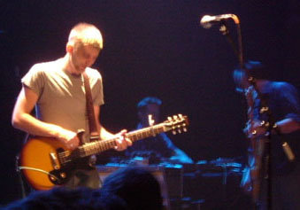 John K. Samson, lead singer for the Weakerthans, performing in Montreal